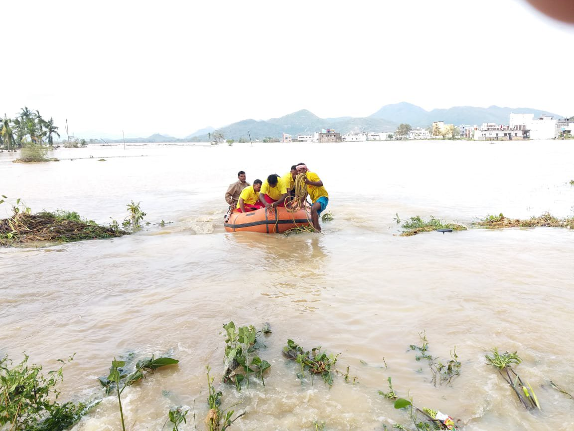 Tweet Text: RT @SRC_Odisha: Rescue work in #Mahendratanya river in #Gajapati.